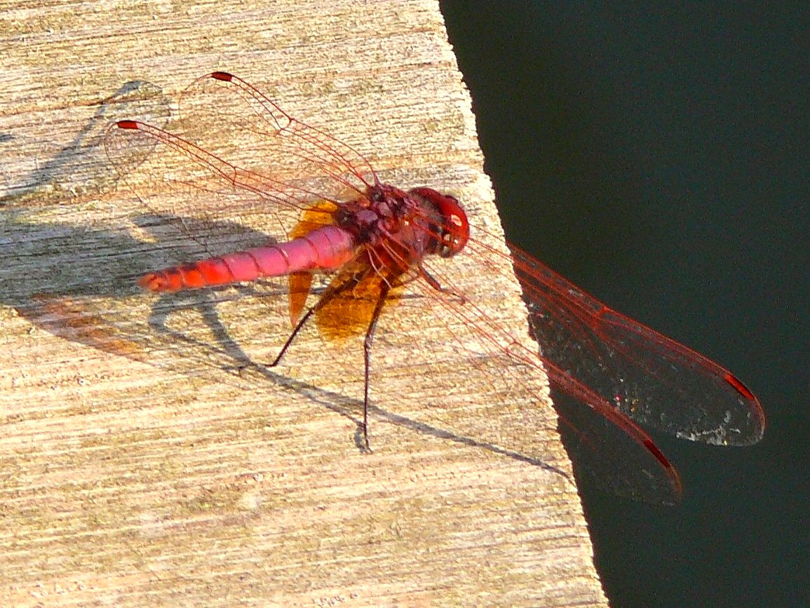 Red Dragonfly, Trithemis annulata